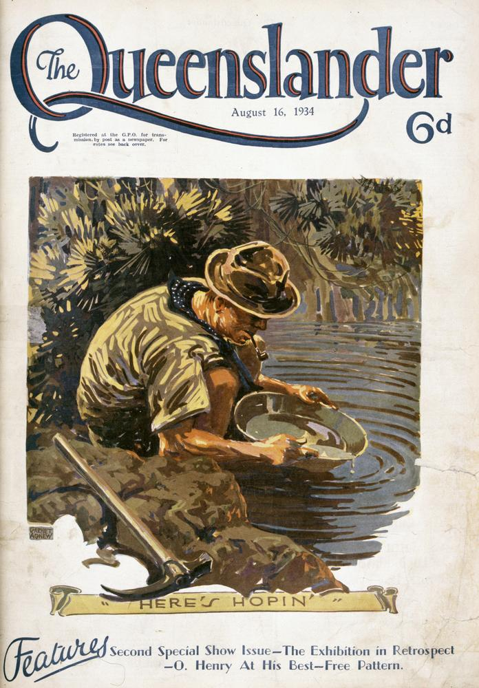 Illustrated front cover from The Queenslander, August 16, 1934. Caption: Here's hopin' - panning for gold.